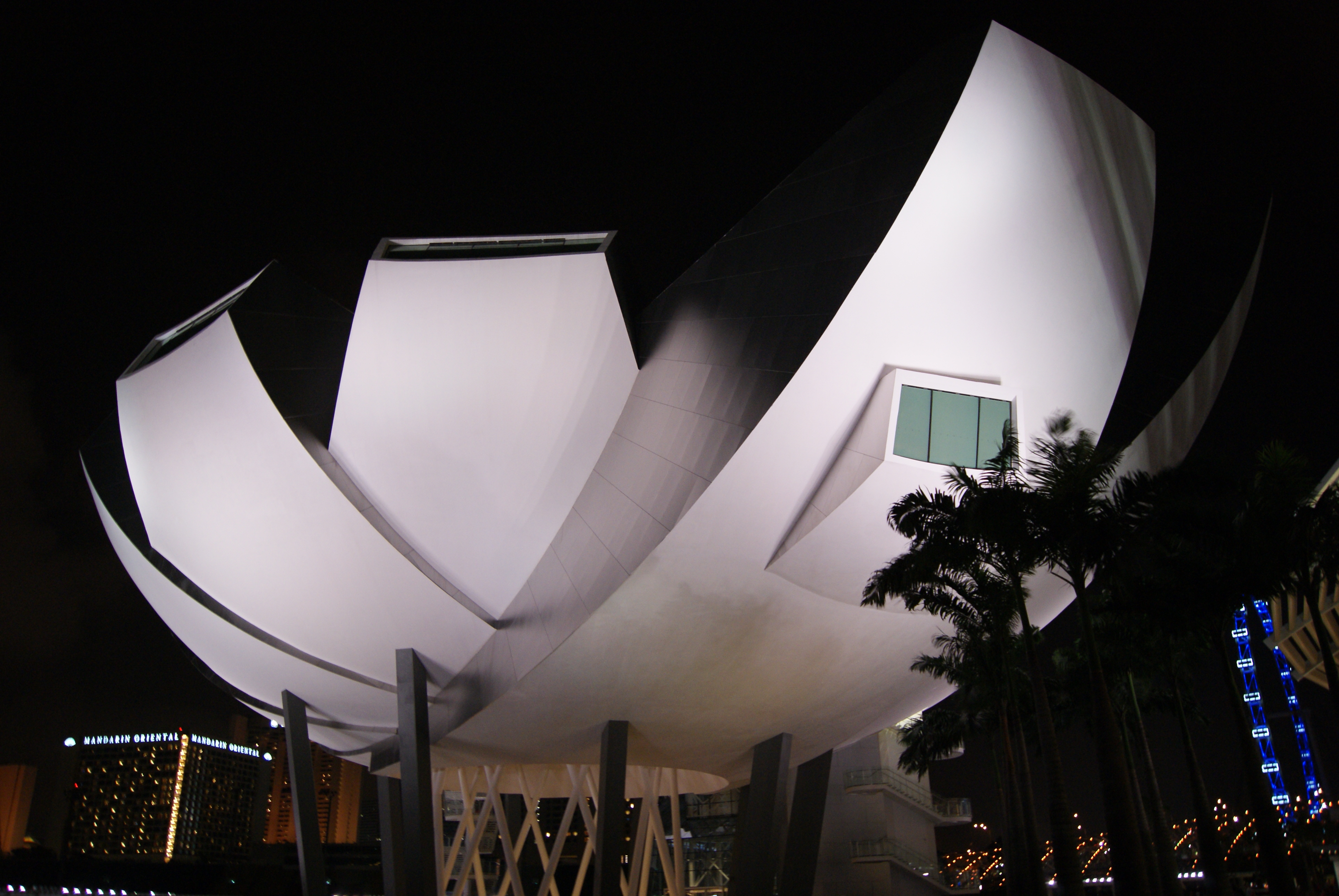 The ArtScience Museum of Marina Bay Sands, Singapore.